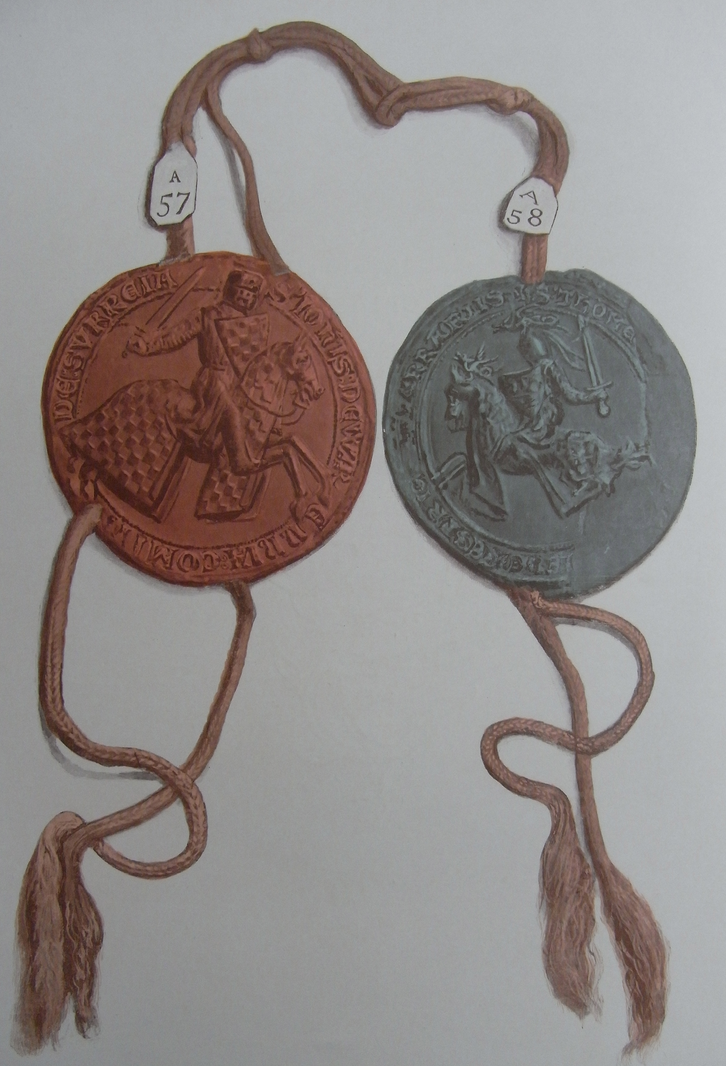 Cord 1 of seals appended to Exemplar A of Barons' Letter 1301